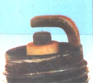 typical appearance of a spark plug in a good running engine